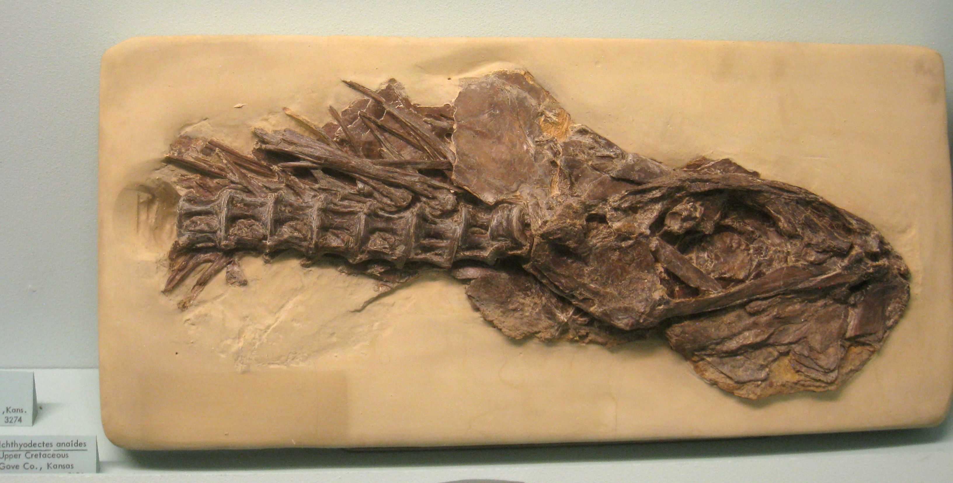 Ichthyodectes anaides. Exhibit Museum of Natural History, University of Michigan, 1109 Geddes Avenue, Ann Arbor, Michigan, USA.